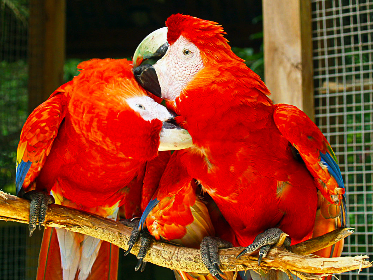 Scarlet Macaw at Macaw Mountain Bird Park, Honduras.